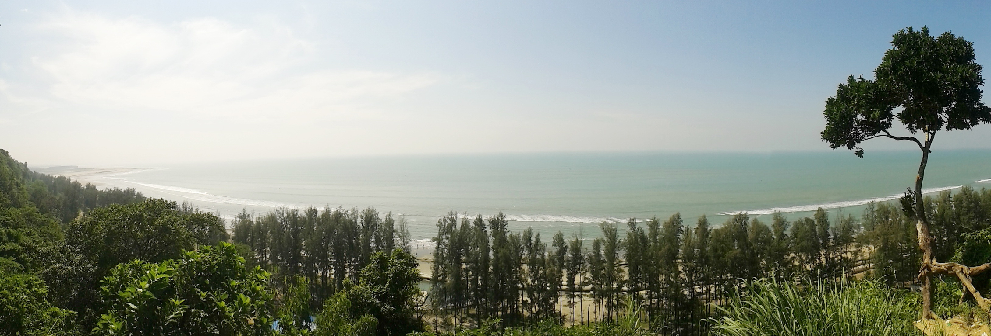 Cox's Bazar beach